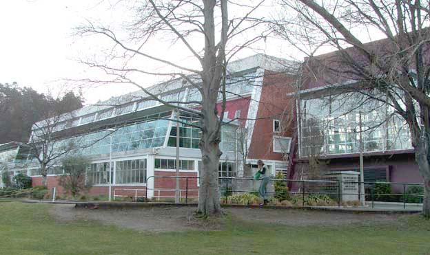 Moana Pool, Dunedin, New Zealand. Photograph taken by James Dignan (User:Grutness), 3 August 2007.